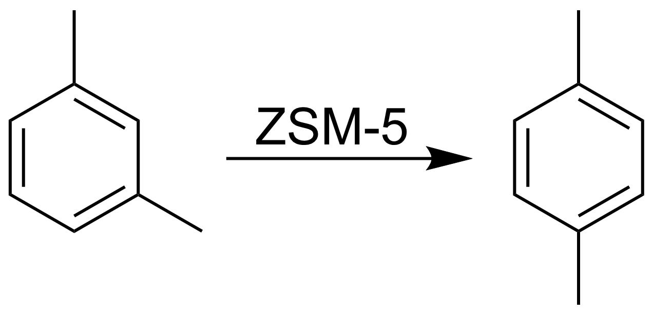 Skeletal structure of the isomerization of m-xylene to p-xylene catalyzed by ZSM-5